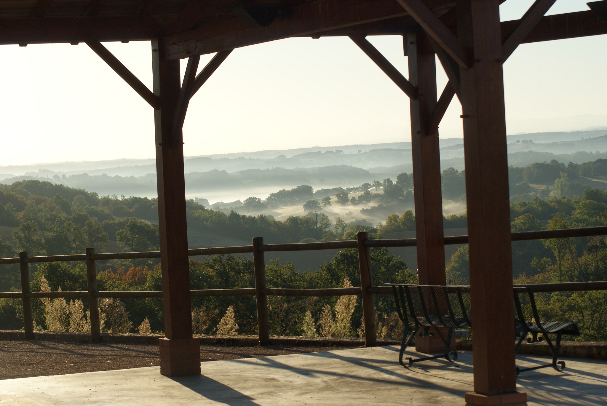 Monties (Gers, France) : View from the town hall to the east.